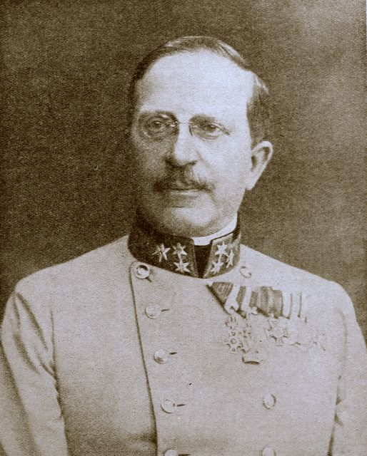 Baron Arz Arthur von Straussenburg, colonel general, Chief of General Staff of the Austro-Hungarian Monarchy 1917-1918. Photo made in 1910.